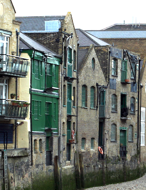 Dunbar Wharf Limehouse from river